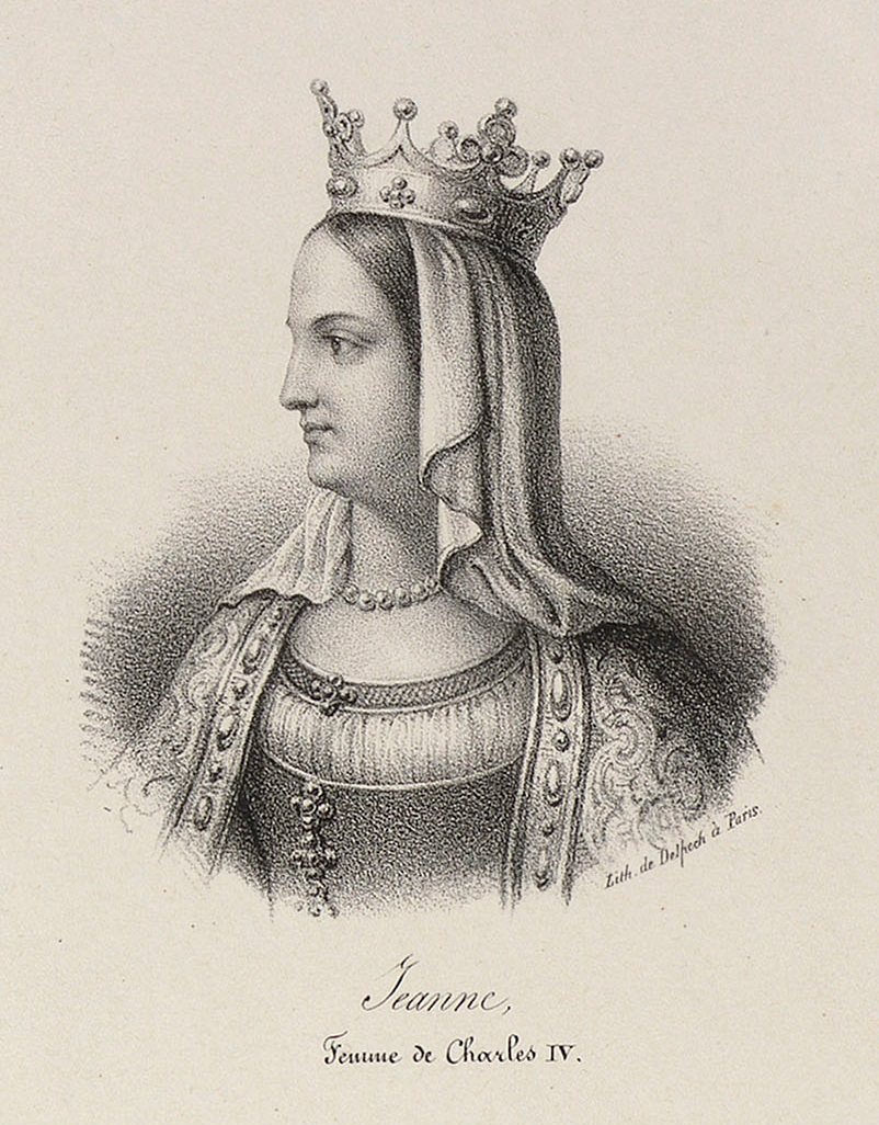 Jeanne d'Évreux (1310-1371), wife of Charles IV of France